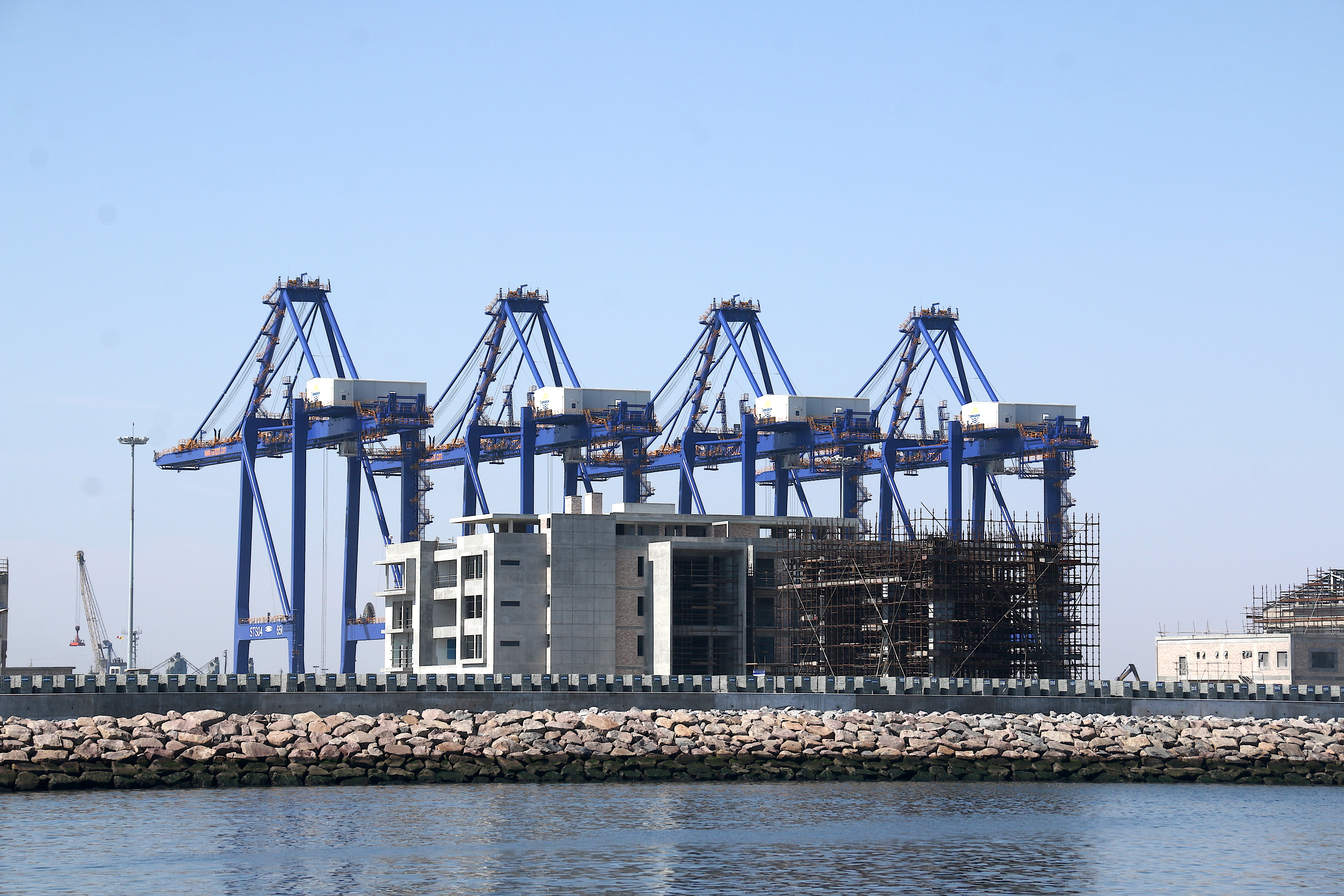 Harbour of Walvis Bay 2018